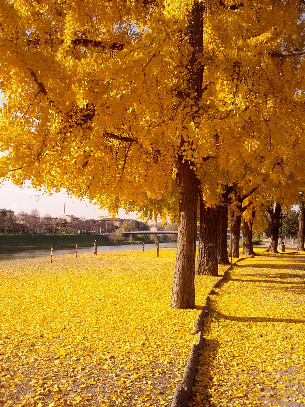 Ginkgo biloba. Florence (Italy), Le Cascine park